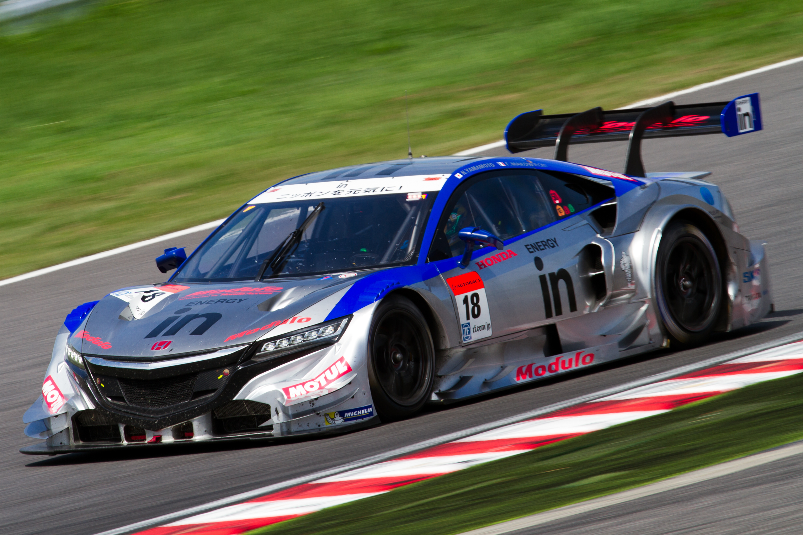 Super GT 2014 Rd.6 Suzuka 1000km: Naoki Yamamoto (Dome)